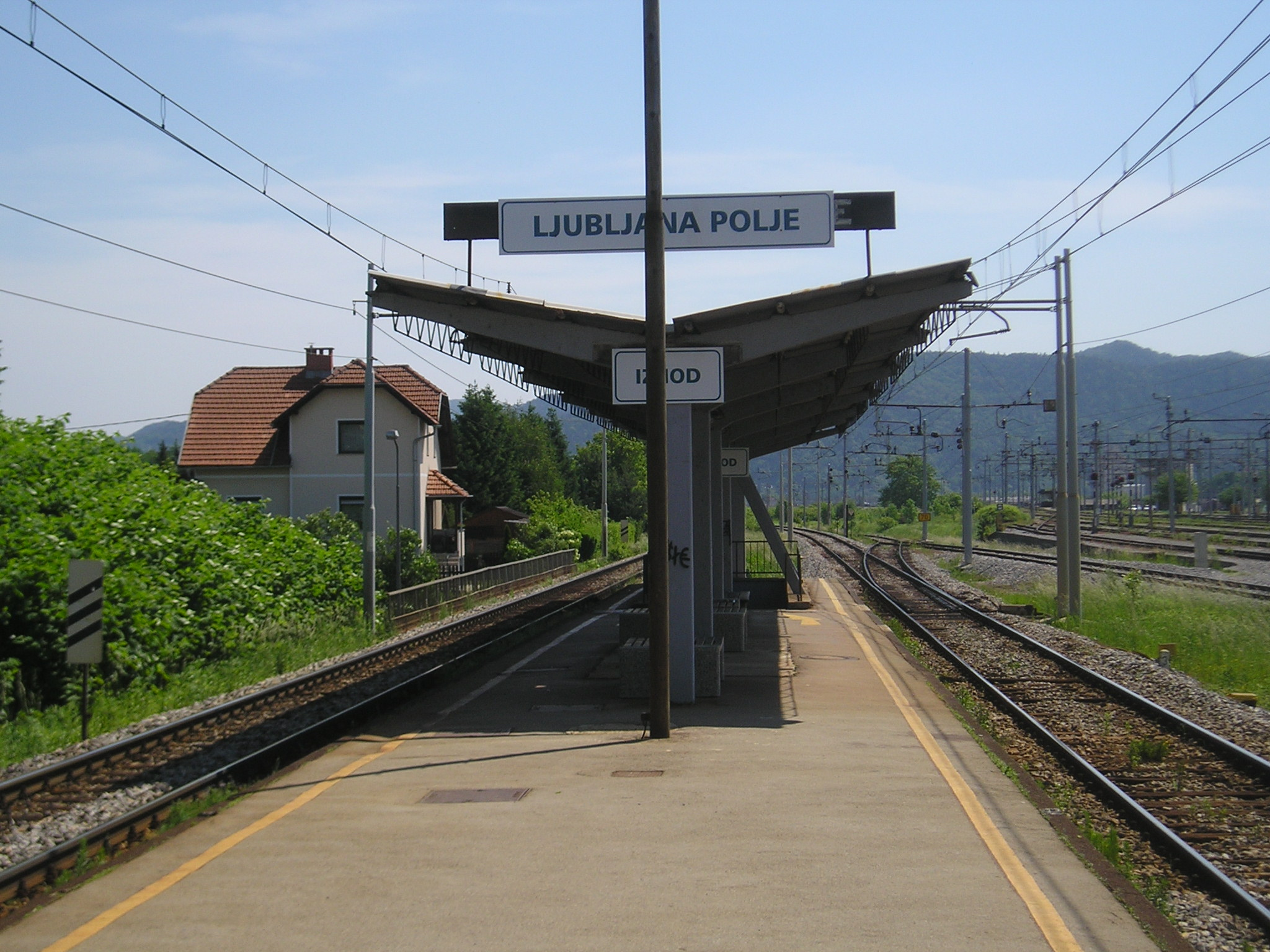 Rail halt Ljubljana Polje (eastern suburb of Ljubljana, Slovenia)